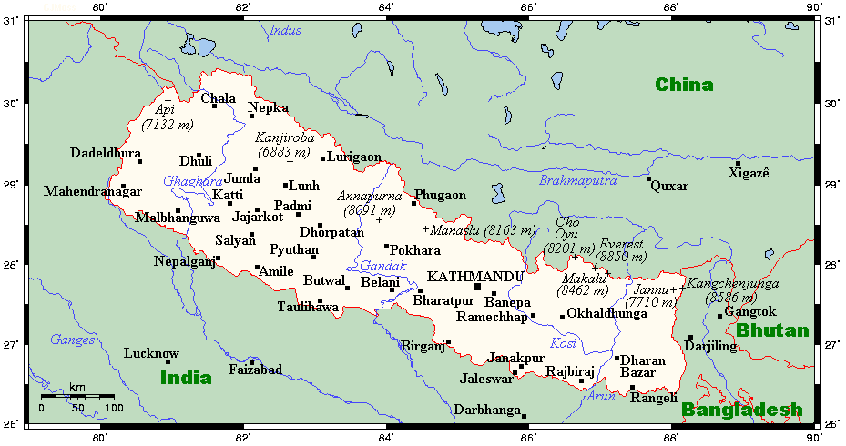 A map showing Nepal's main towns, selected villages, rivers and peaks. This map's source is here, with the uploader's modifications, and the GMT homepage says that the tools are released under the GNU General Public License.